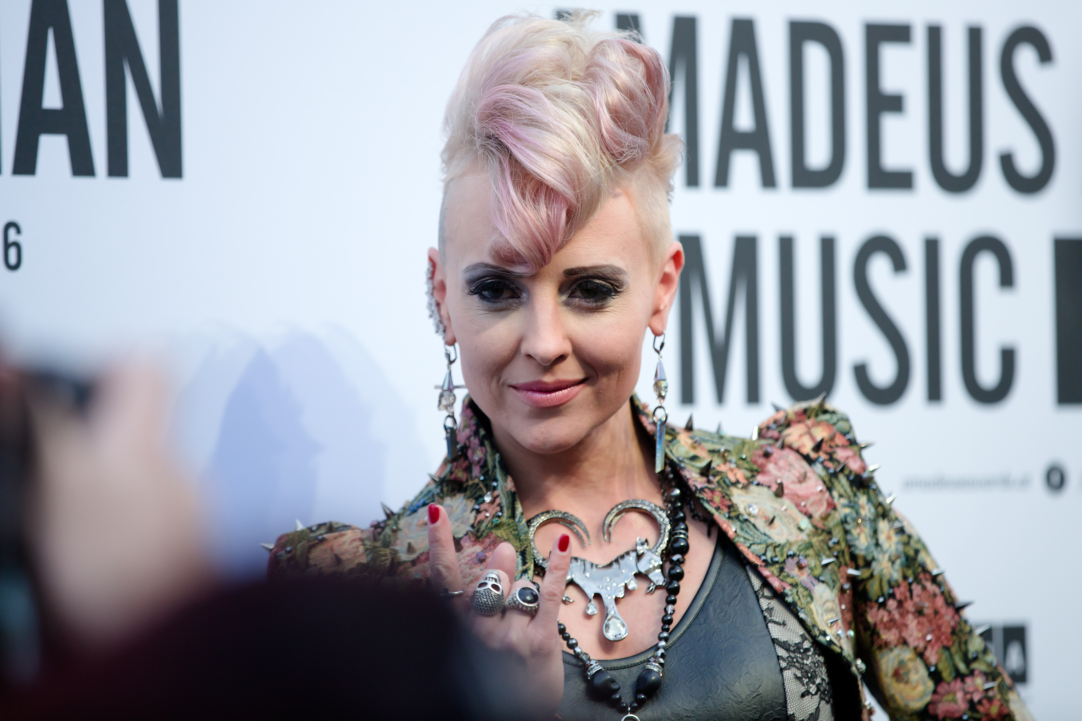 Hannah at the Amadeus Austrian Music Award 2015 at Volkstheater in Vienna